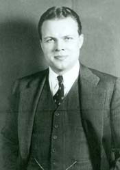 former congressman Robert Gray Allen of Pennsylvania.